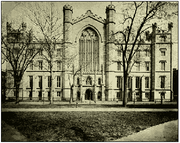 NYU's Original University Building on University Place